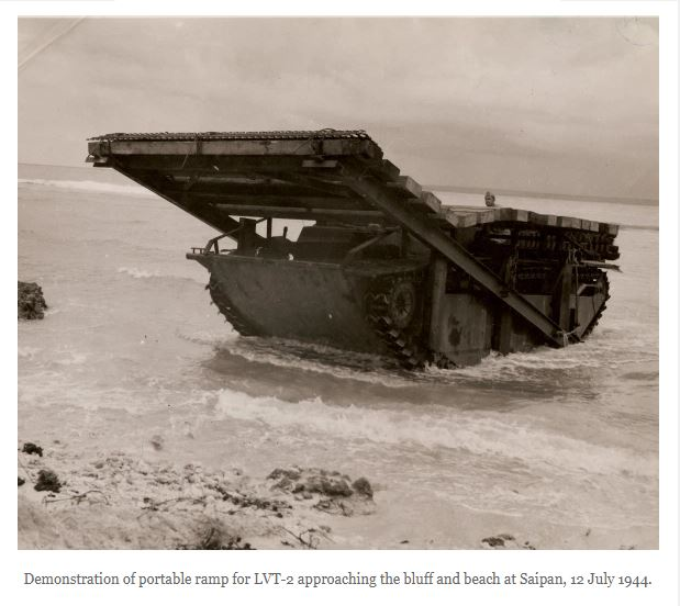 LVT-2 doodlebug